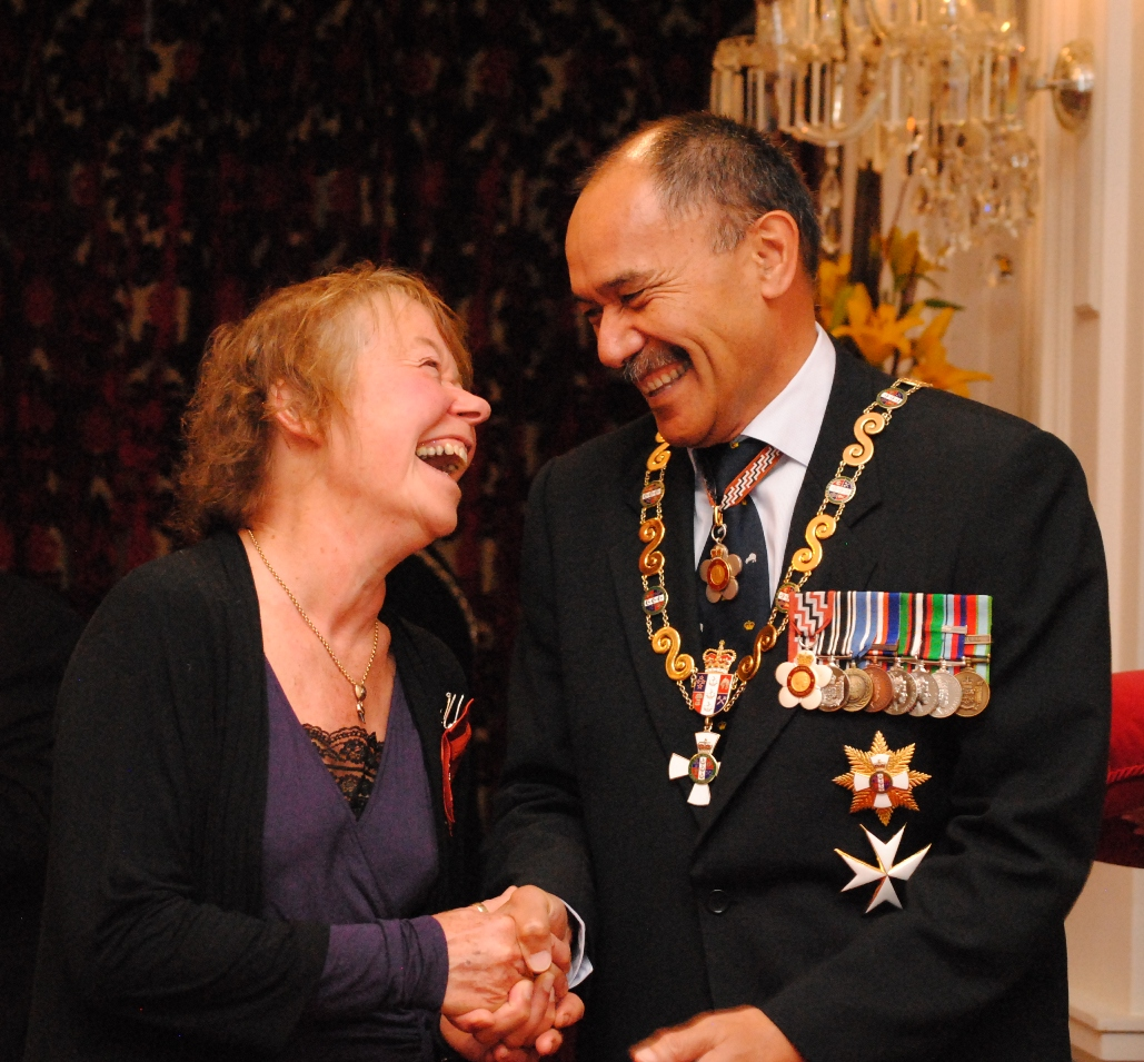 Dale Copeland, after her investiture as MNZM, for services to the arts, by the governor-general, Sir Jerry Mateparae, on 7 September 2012.